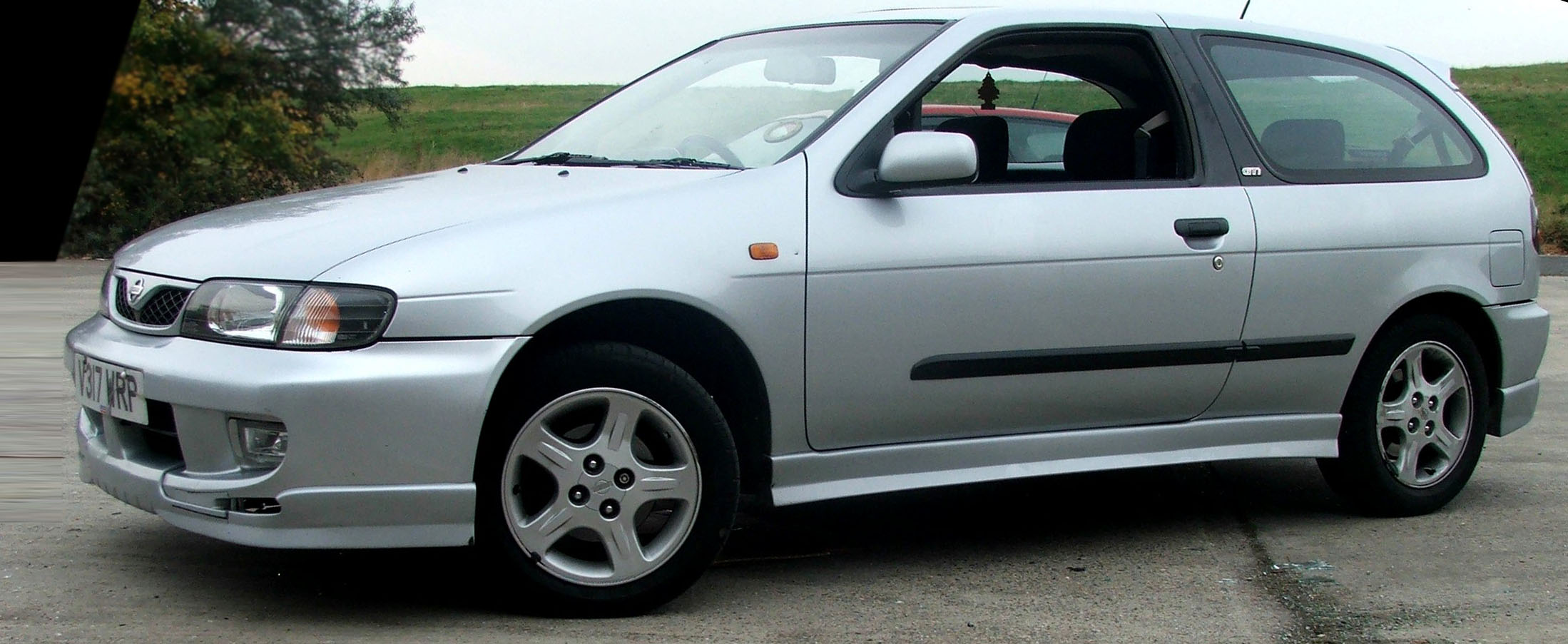 1999 Nissan Almera N15 Gti